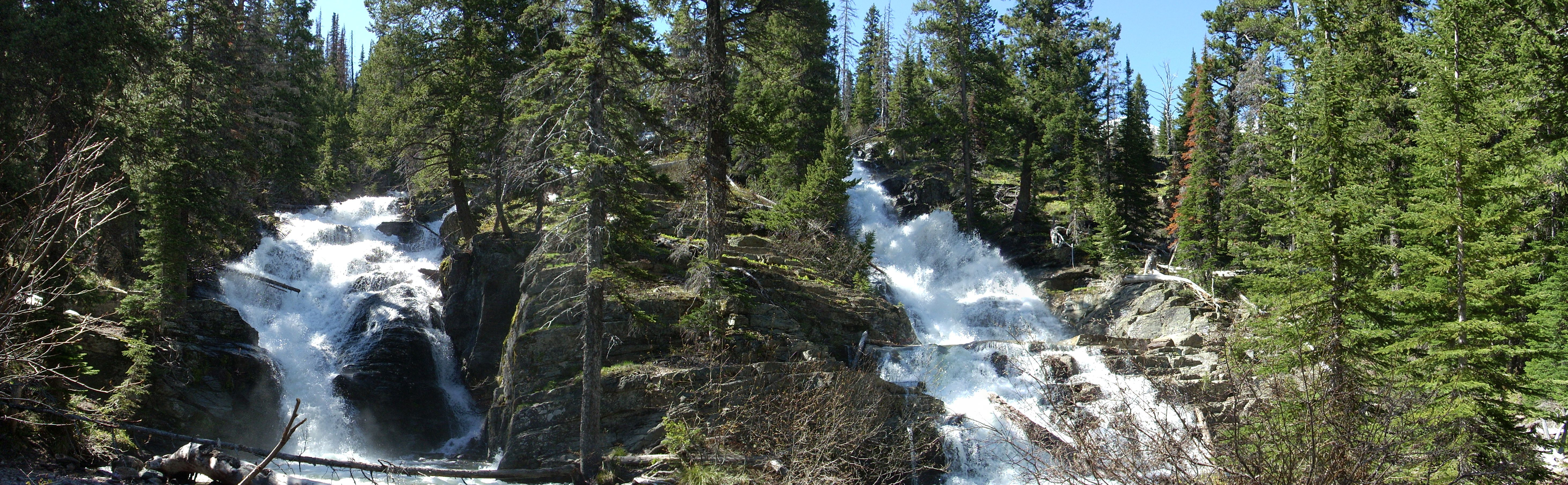 This is a panoramic photo of Twin Falls in Glacier National Park near Two Medicine lake. It consists of three separate photos stitched together using hugin.